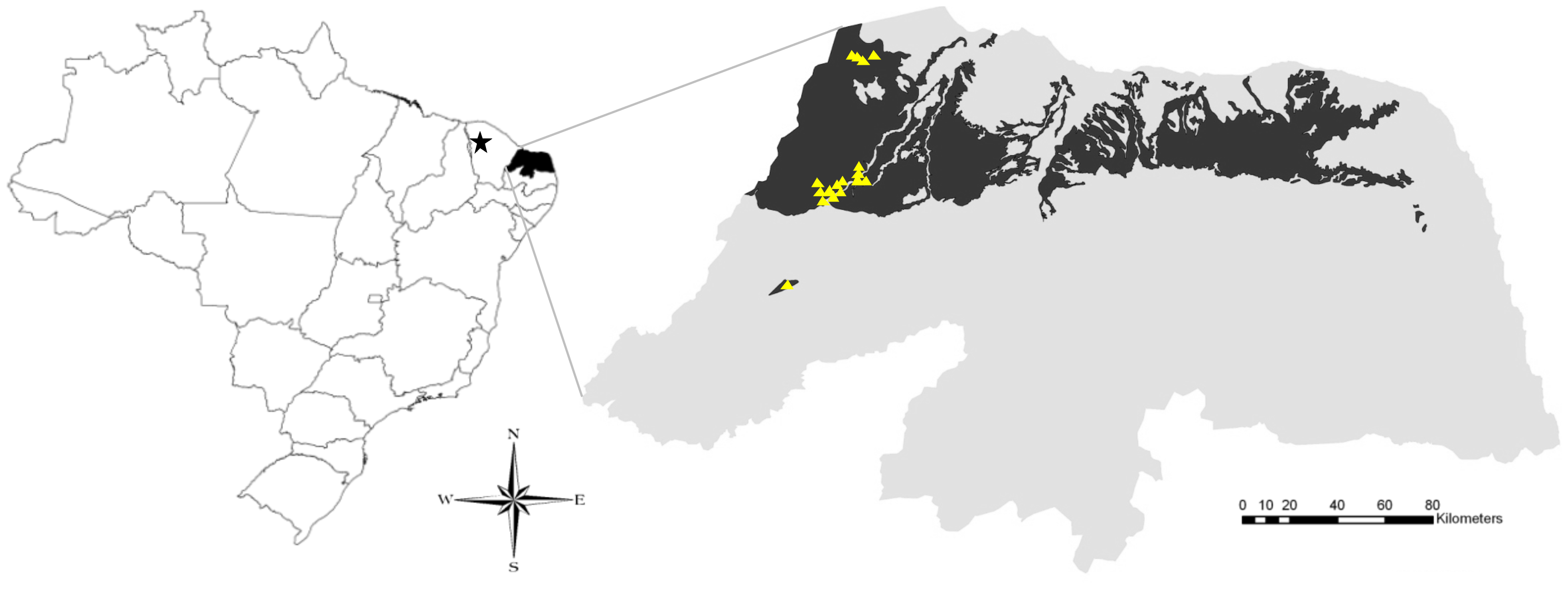 Geographic distribution records of Rowlandius ubajara sp.nov. (star) and R. potiguar sp.nov. (triangles) in northeastern Brazil.